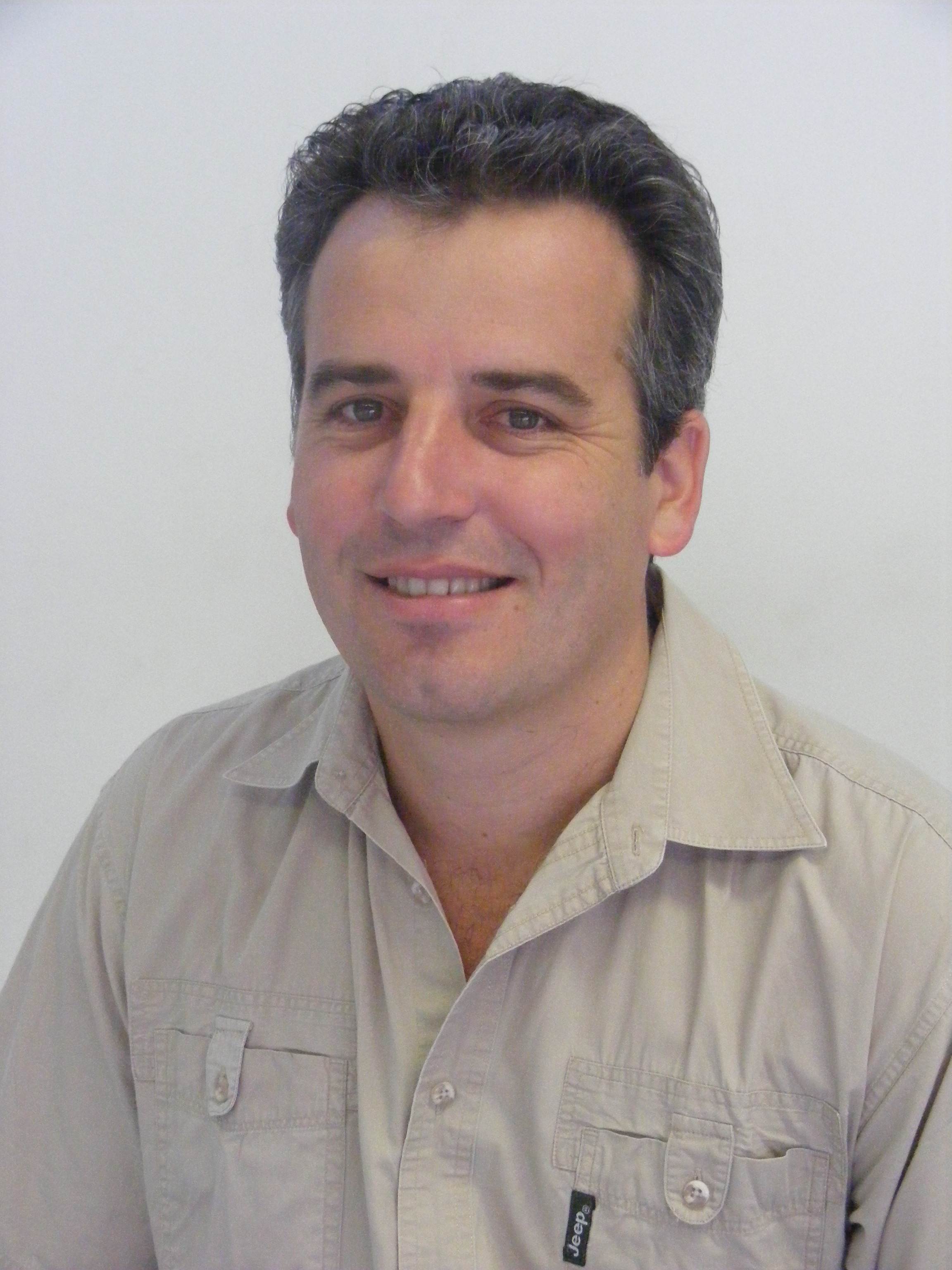 Depicted person: Jacques Smalle – South African politician